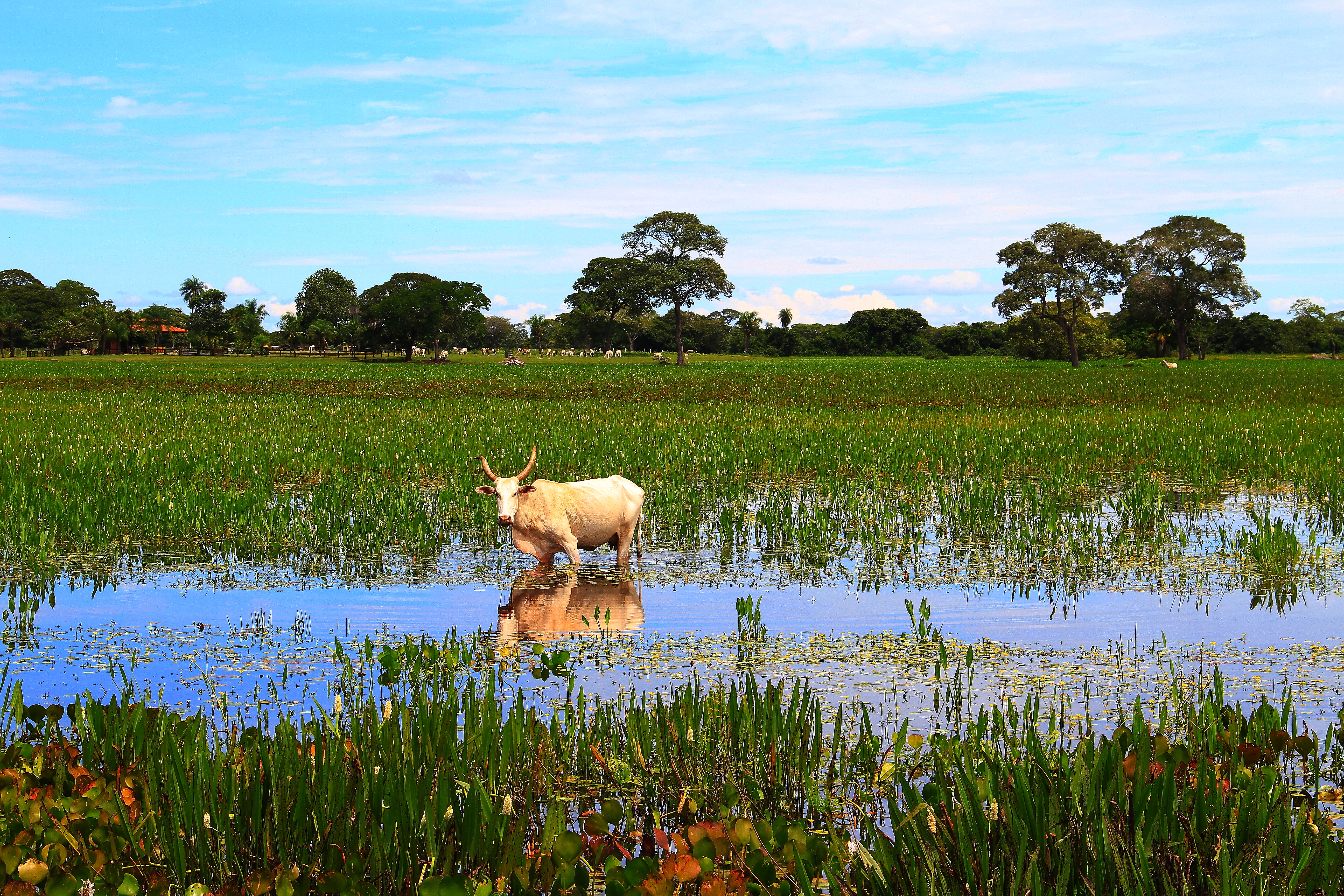 Beauties of the Pantanal